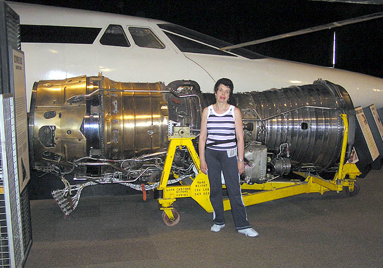 Olympus 593 engine (as used in Concorde) at Bristol Industrial Museum, Bristol, England. In the background is a full size Concorde nose. For scale, the woman's height is 5 feet 4 inches. Sorry about the quality! Taken by Adrian Pingstone in August 2004 and released to the public domain.